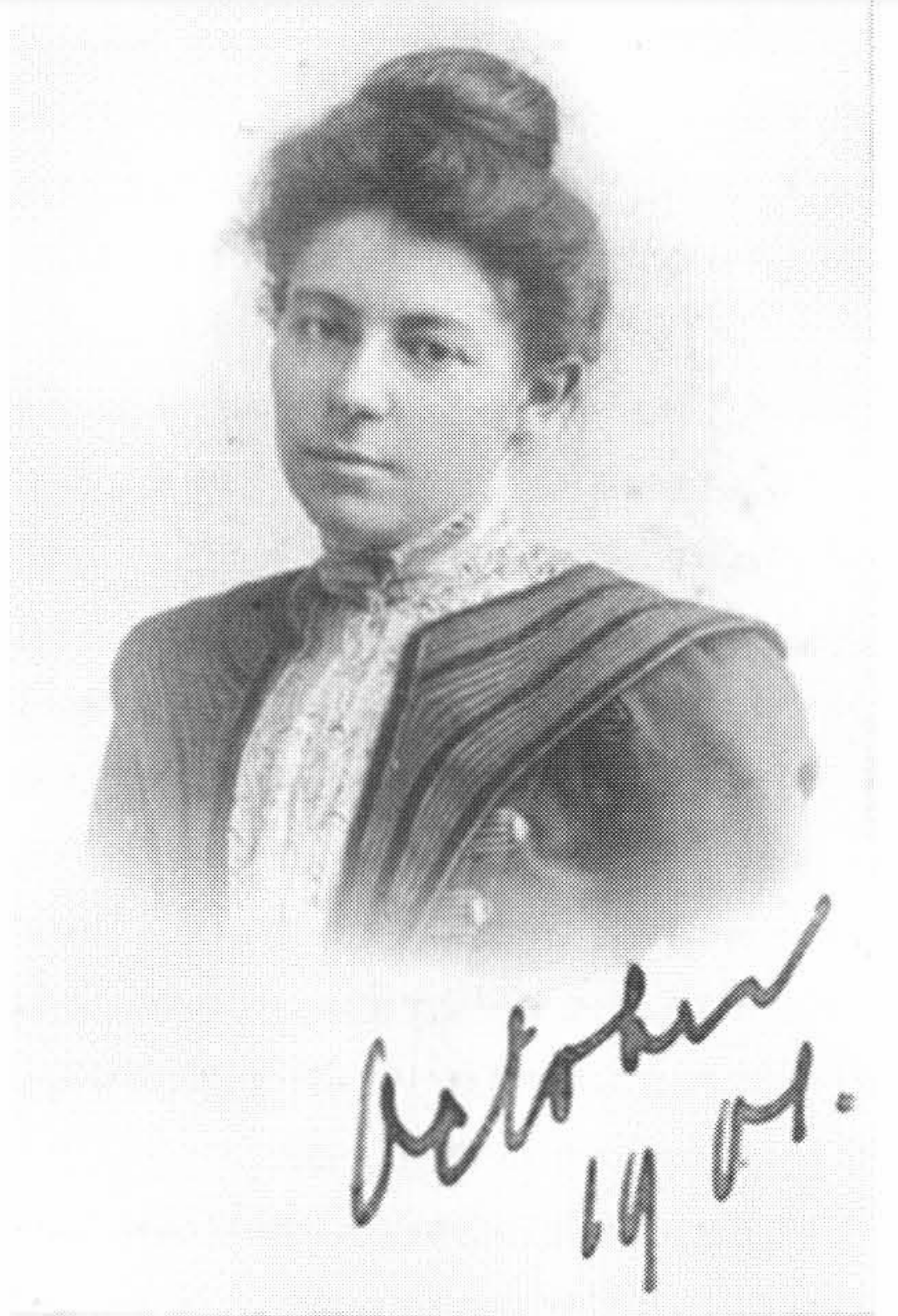 Lizzy van Dorp, first female lawyer of the Netherlands